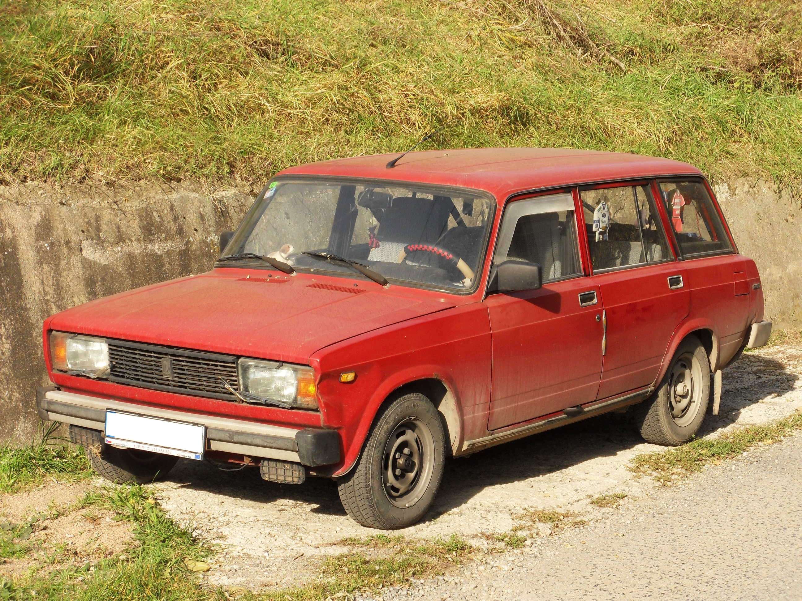 Lada 2104, Lelekovice, Brno-venkov District, Czech Republic